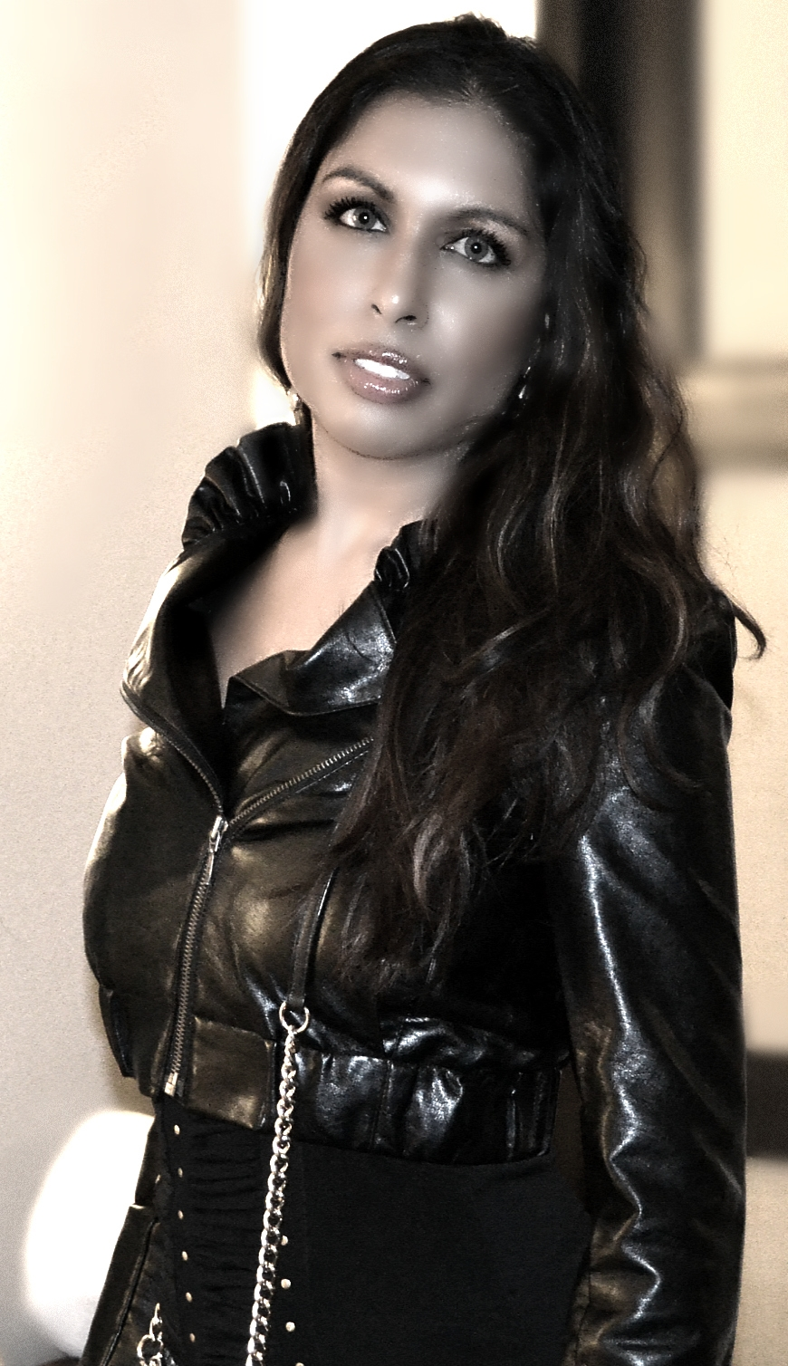 Ria Persad Carlo, Wings Model Management